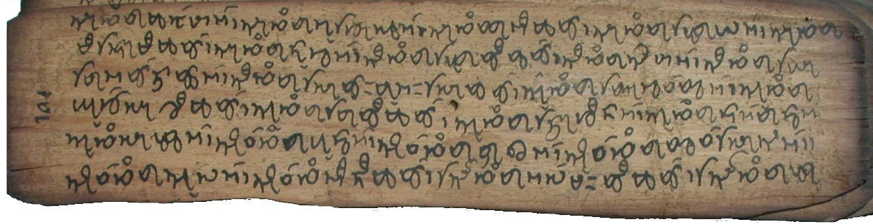 This page of Tai manuscript was written sometime during 18 century. This page is a part of a volume of yesteryear Tai scripture produced in Ahom kingdom. The whole volume is currently preserved in Department of Historical and Antiquarian Studies (DHAS), Pan Bazaar Guwahati 781001 Assam.